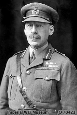 Portait of General Sir George Gorringe